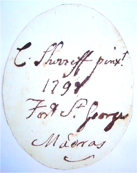 Signature of Charles Shirreff (circa 1750–1829), a deaf and mute Scottish painter of portrait miniatures. From a miniature painted at Fort St. Georges, Madras, India, in 1798. The inscription reads in full: C. Shirreff pinxt. 1798 Fort St. Georges Madras